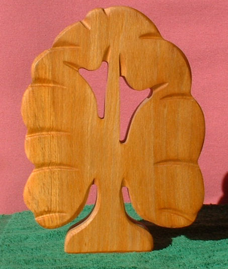 Description: beech wood Source: own photography Date: October 2005 Author: --Immanuel Giel 11:07, 28 October 2005 (UTC) Other versions: none Buche